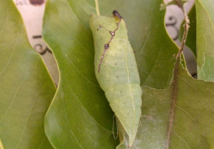 Common Jay Graphium doson pupa